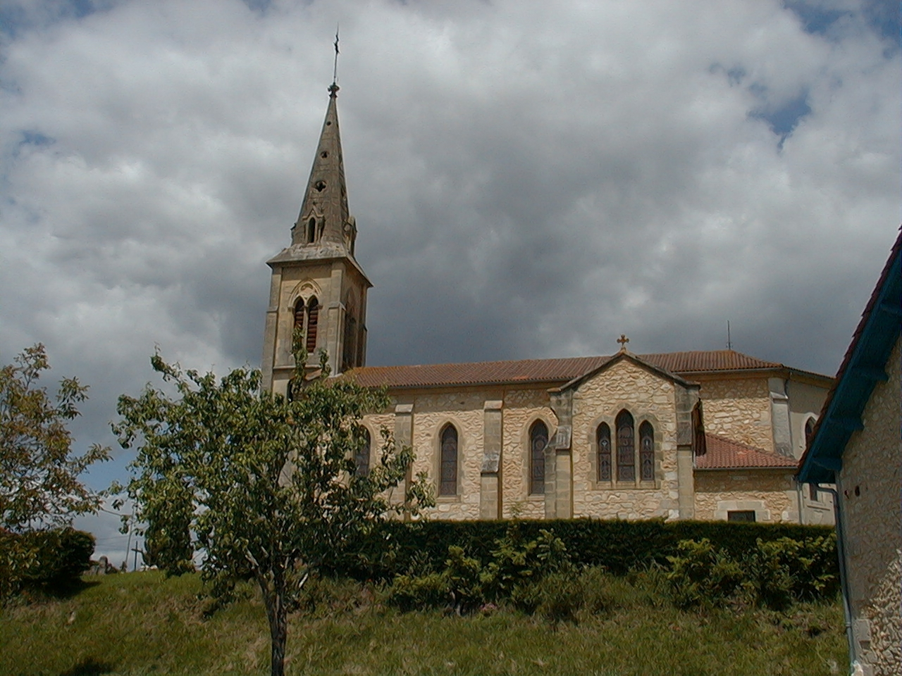 Saint-Georges-Blancaneix church